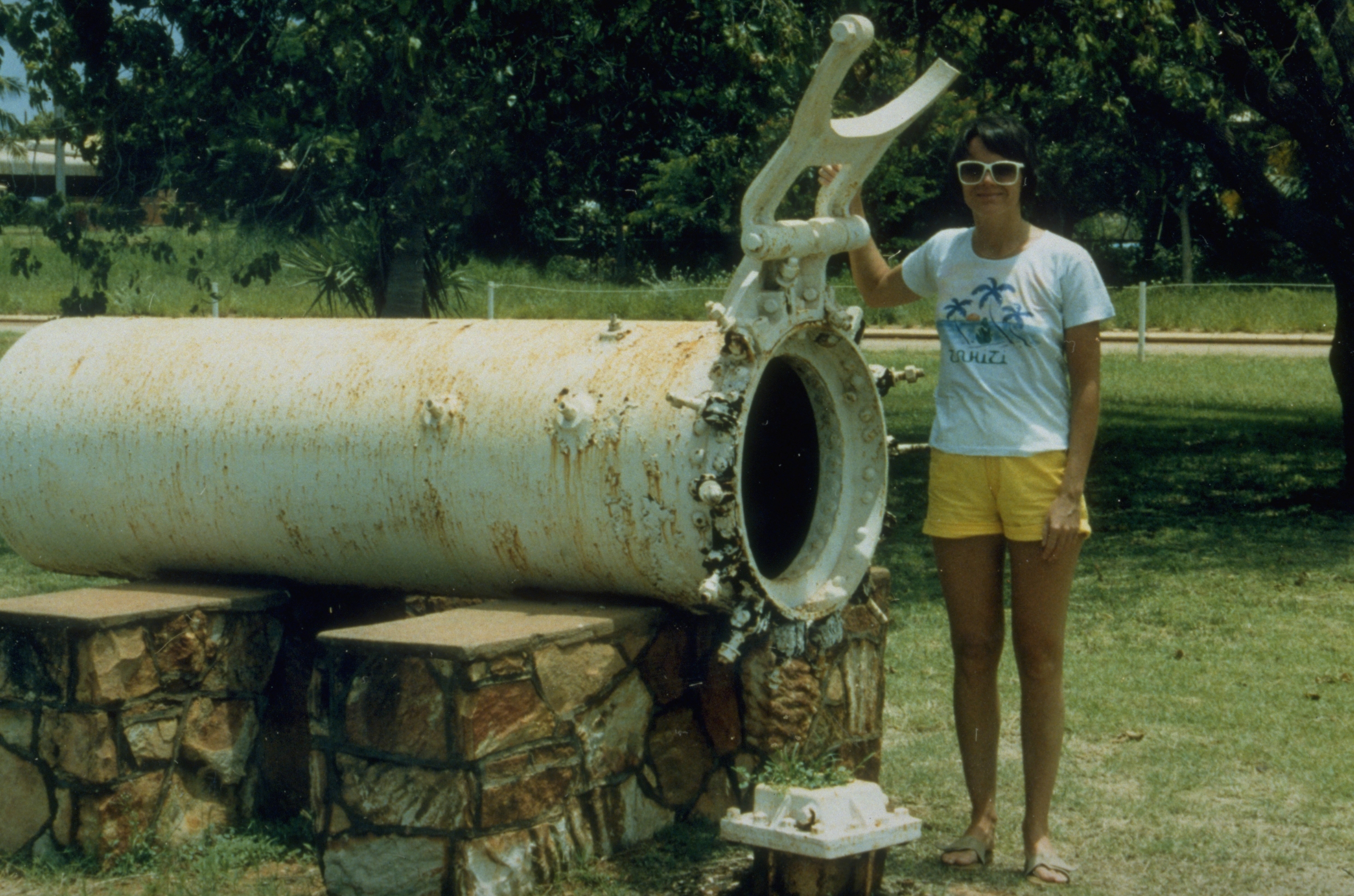 Early decompression (recompression) chamber in the park at Broome, Western Australia. The chamber was used to treat decompression sickness in Japanese pearl divers who were, generally, of small build. The chamber is now located indoors in the Broome Historical Society Museum.